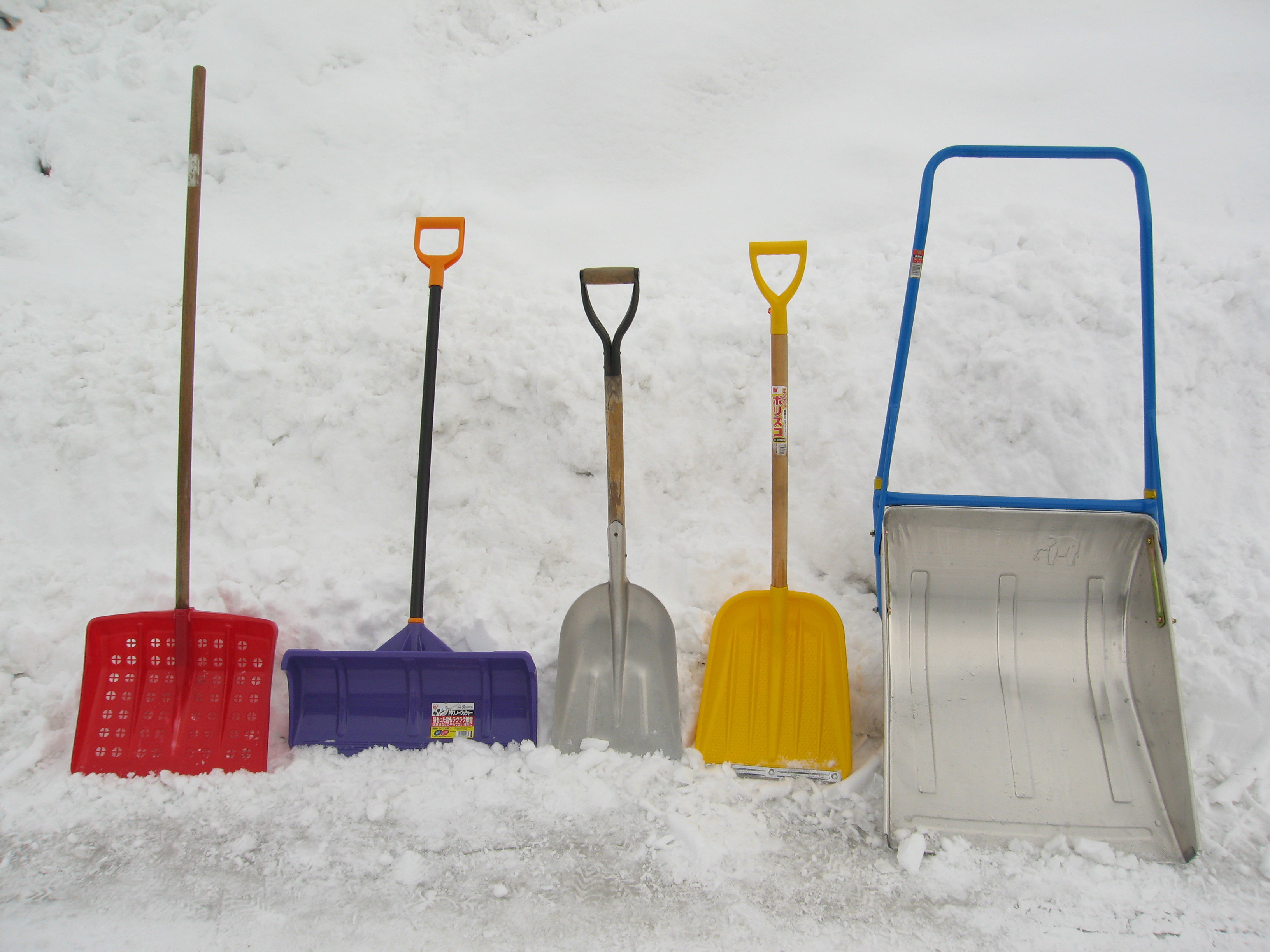 "tool of snow removal" Hokkaido, Japan